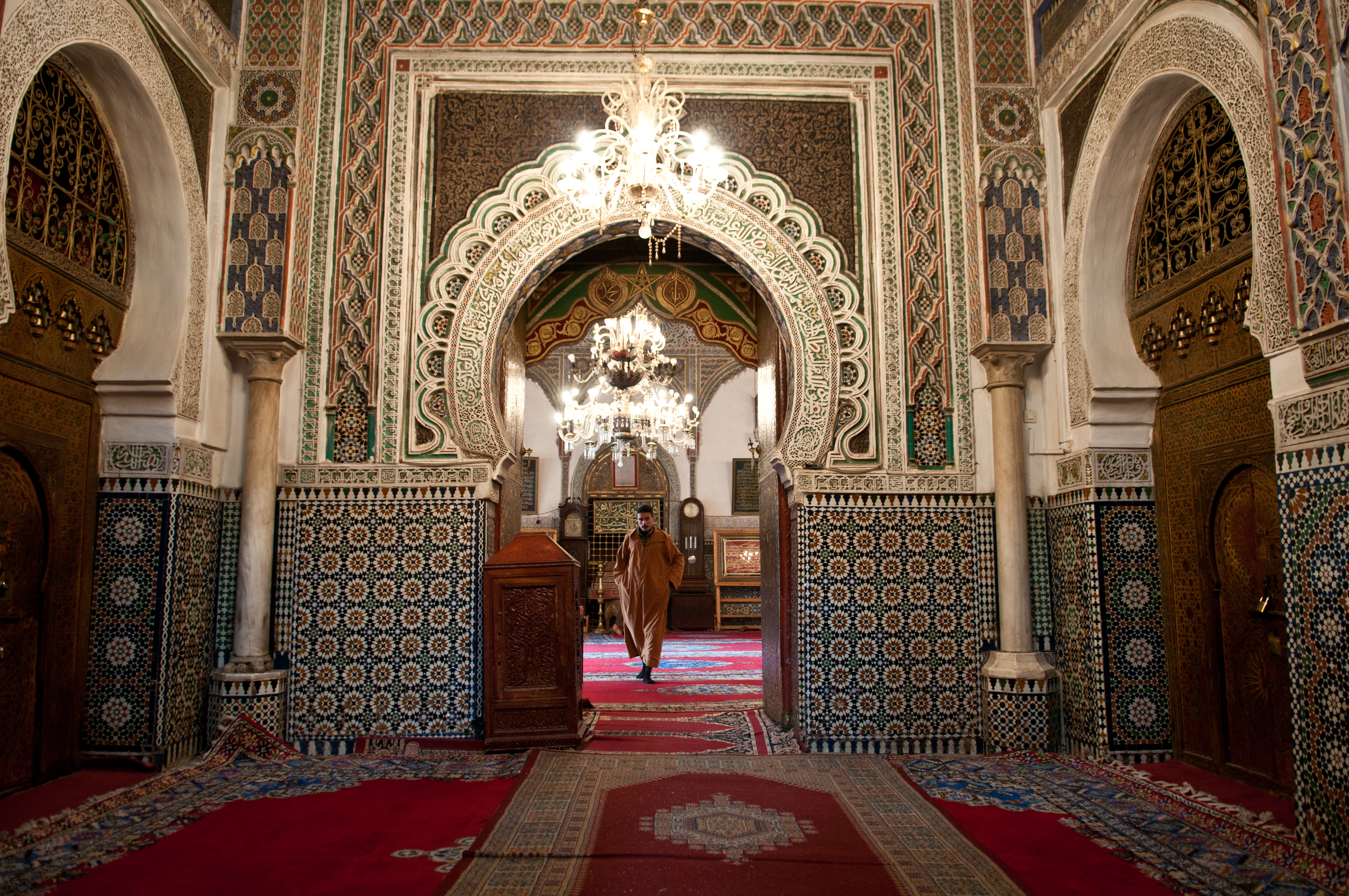 Inside of a mosque in Fes